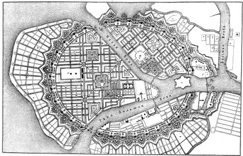 The Saint Petersburg master plan 1717 by Jean Leblond